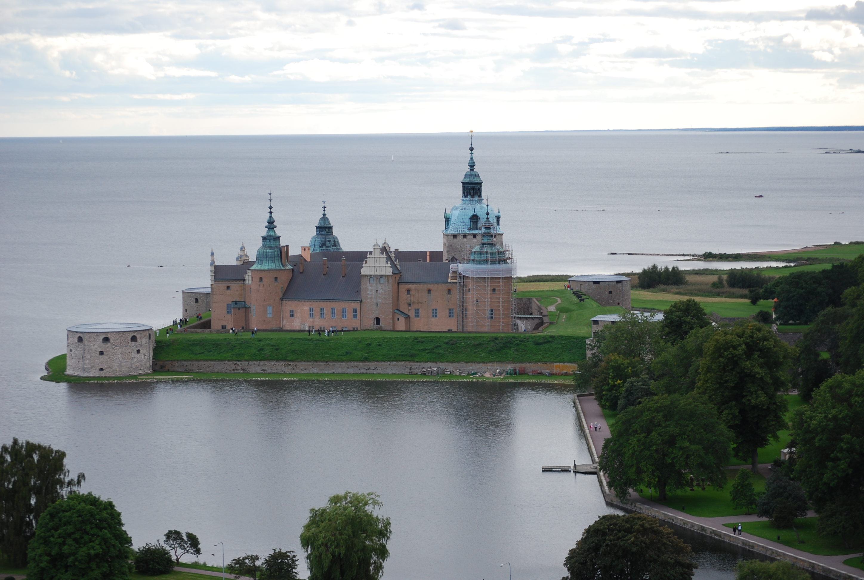 Kalmar Castle, Sweden